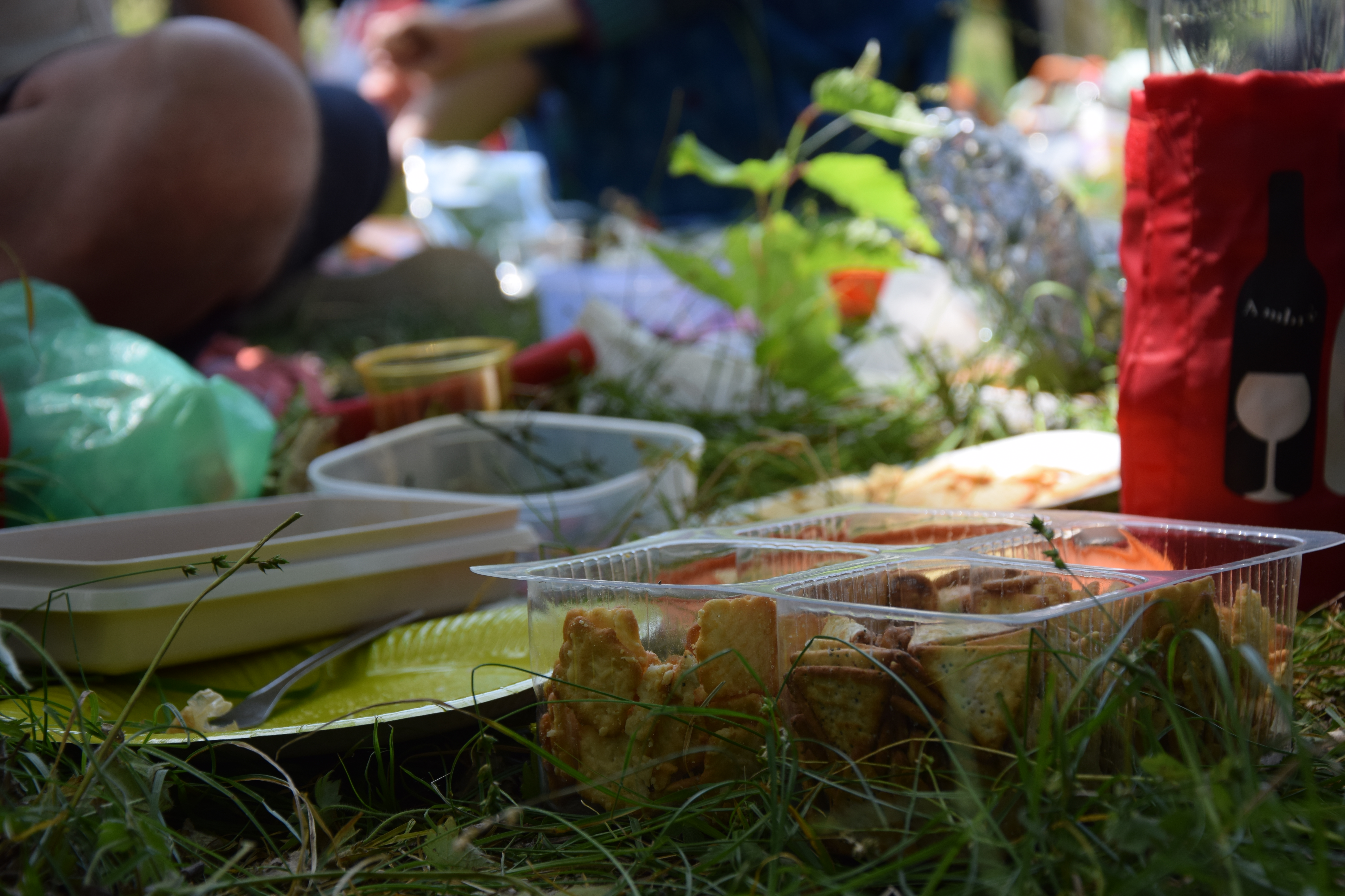 Meetings of French Wikipedians in Paris, the 7th of June 2015